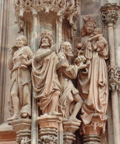 Depiction of the adoration of the Magi, sculptures of Jacques de Landshut on the Cathedral of Notre Dame in Strasbourg, work of architect Jakob von Landshut; executed during the years 1494-1505.